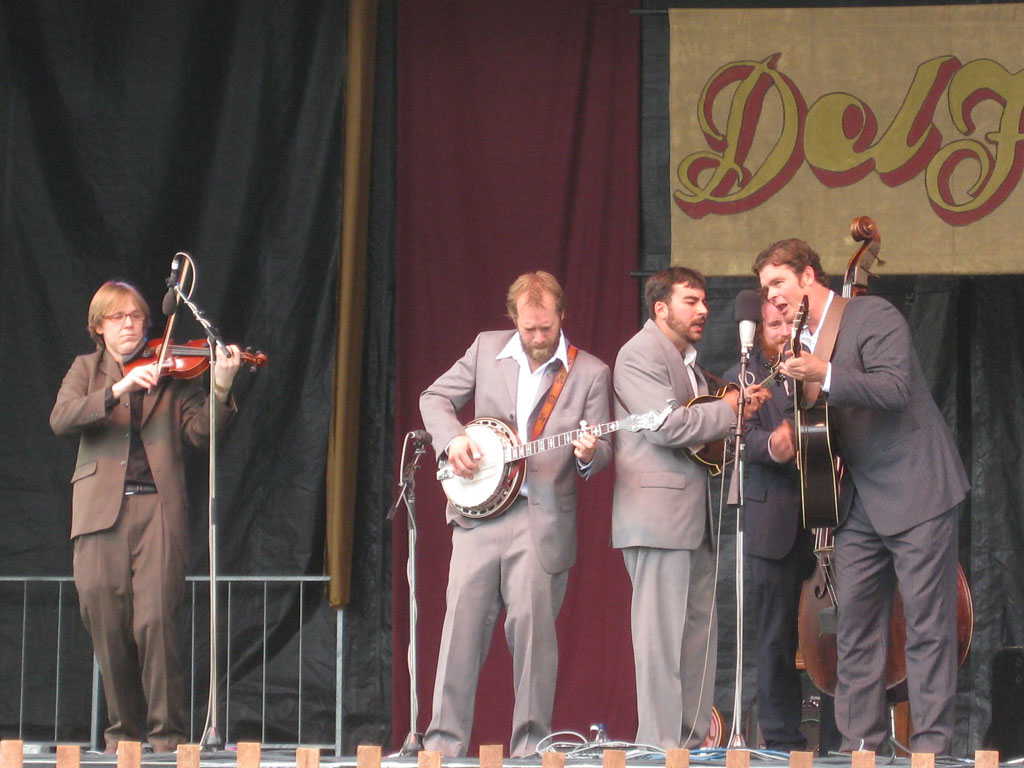 The Steep Canyon Rangers at DelFest, May 22, 2009, Allegany County Fairgrounds, Maryland